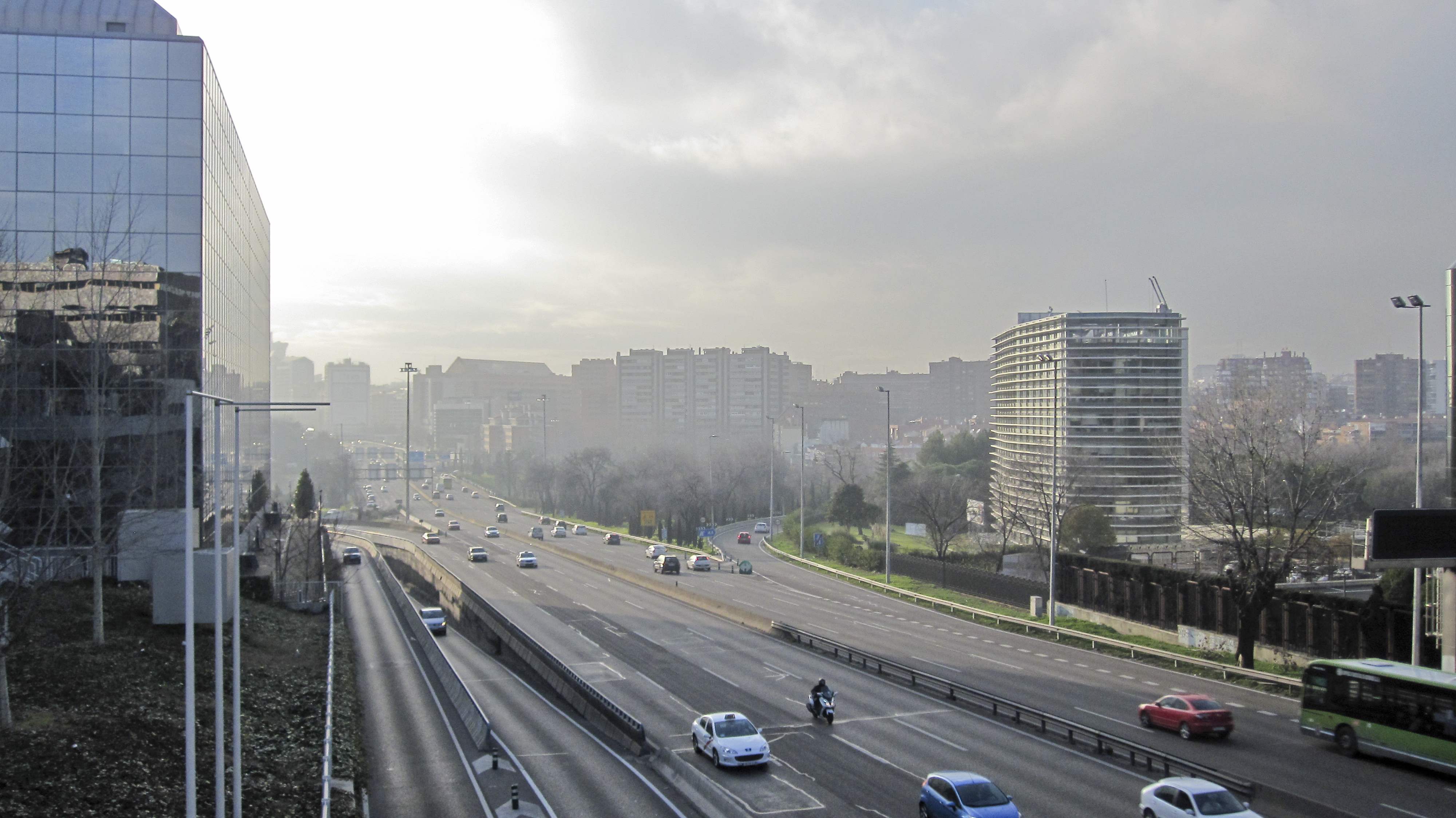 Avenida de América, Madrid, Spain. Seen from C/ Torrelaguna.